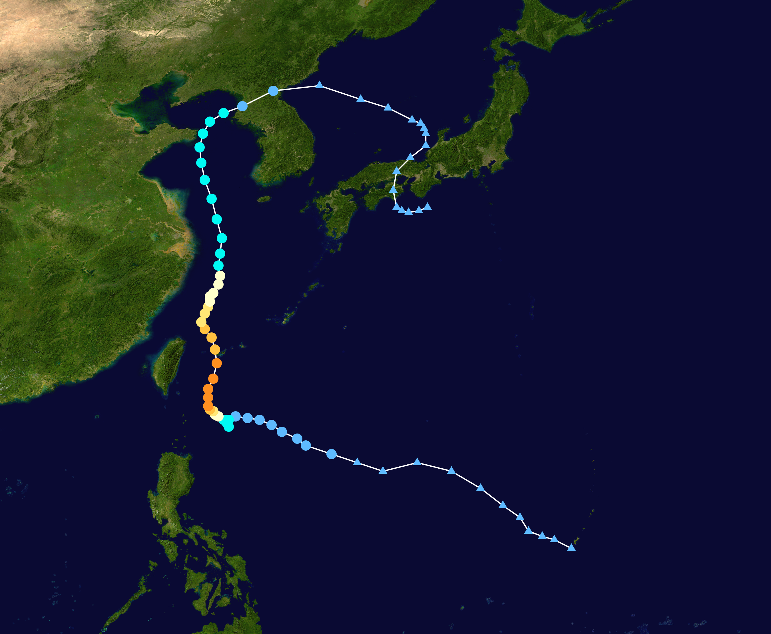 Typhoon Cecil 1982 track. Uses the color scheme from the Saffir-Simpson Hurricane Scale.